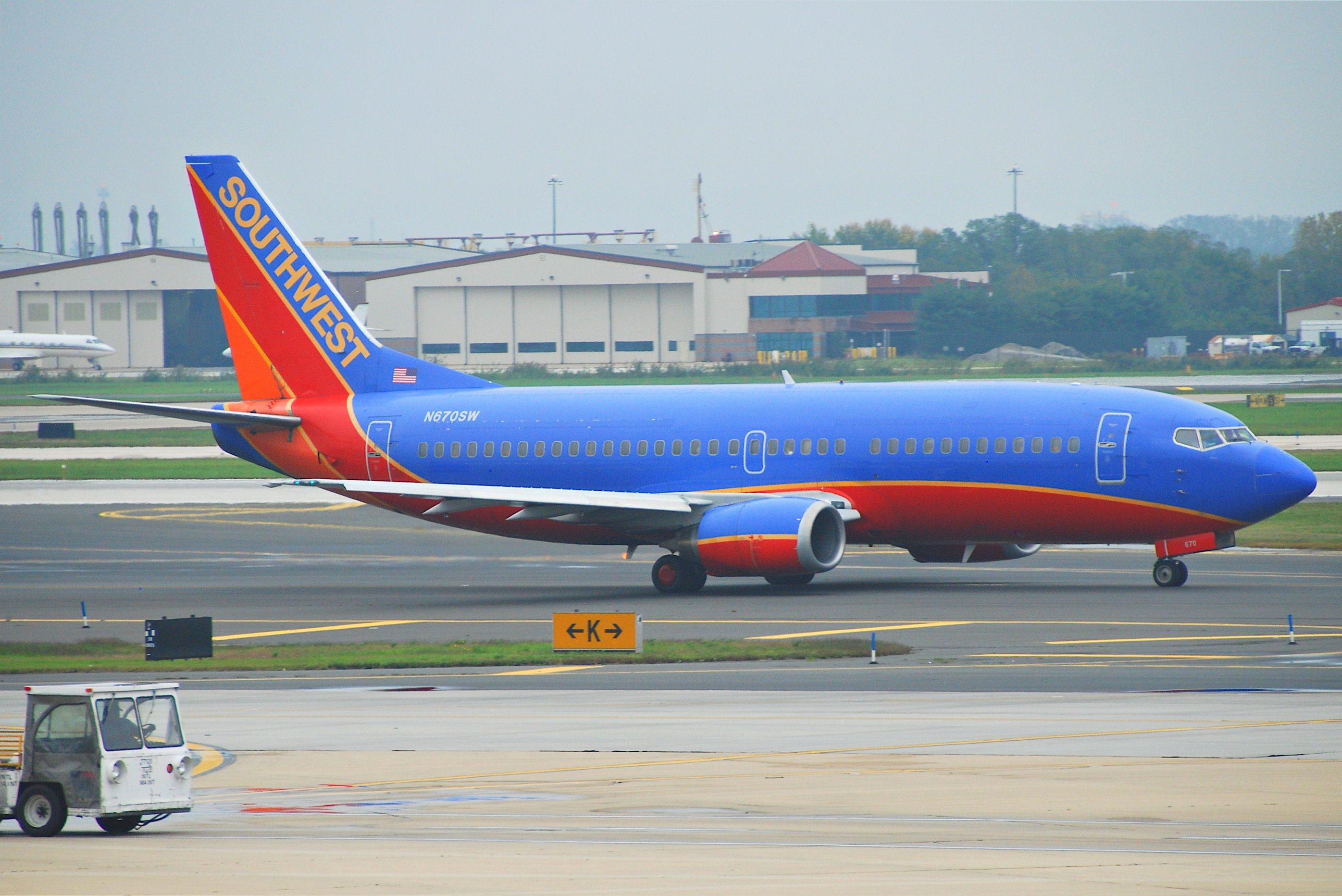 This Boeing 737-3G7 took its first flight on March 24, 1988... 07/04/1988 America West Airlines N162AW 01/11/1992 Time Air Sweden SE-DPO 05/06/1993 Morris Air N779MA 09/07/1994 Southwest Airlines N670SW